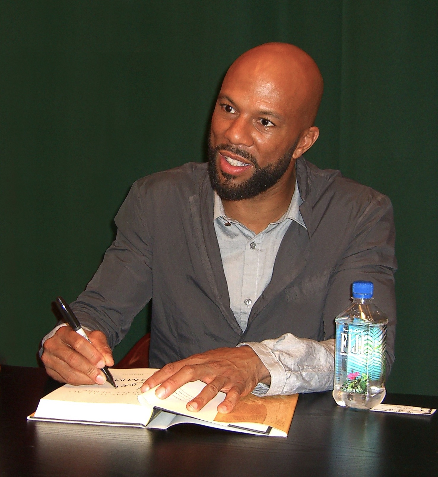 Hip-hop artist and actor Common at a signing for his 2011 book, One Day It'll All Make Sense, held at the Barnes & Noble in Tribeca on the day of the book's release, September 13, 2011. Photographed by Luigi Novi. This photo is not in the public domain. It may, however, be used, modified and published for any purpose, free of charge, only if the photographer is properly credited, either by linking the photograph to this page, or with an easily visible credit to the photographer placed near the photo in each instance in which it is used. (See licensing information below.) Publication of this photo without this proper attribution constitutes copyright infringement. If you have any questions, you can contact me on my Wikipedia Talk Page.